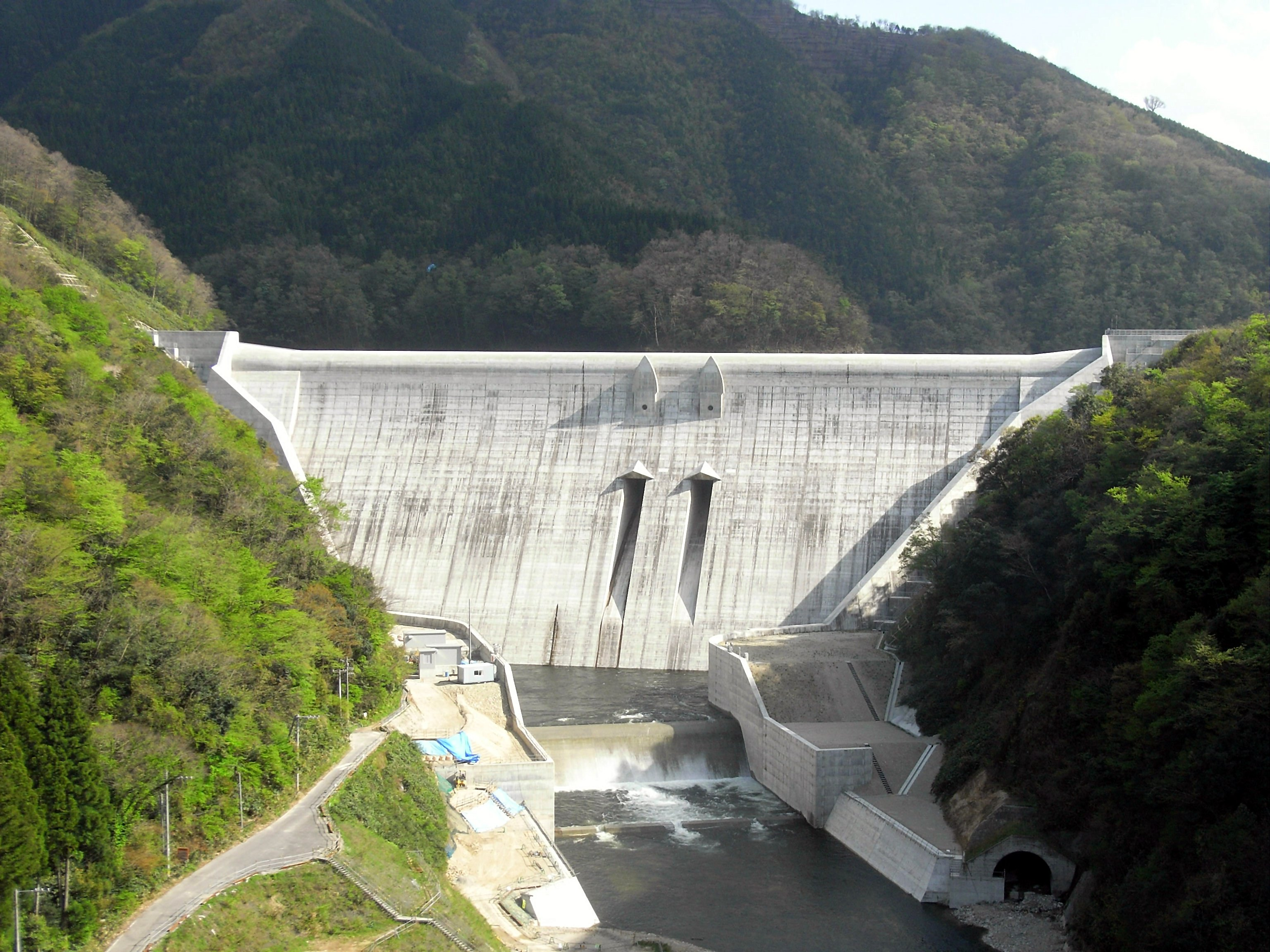 Shitsumi Dam(Kanbegawa river/Shimane pref./Japan)